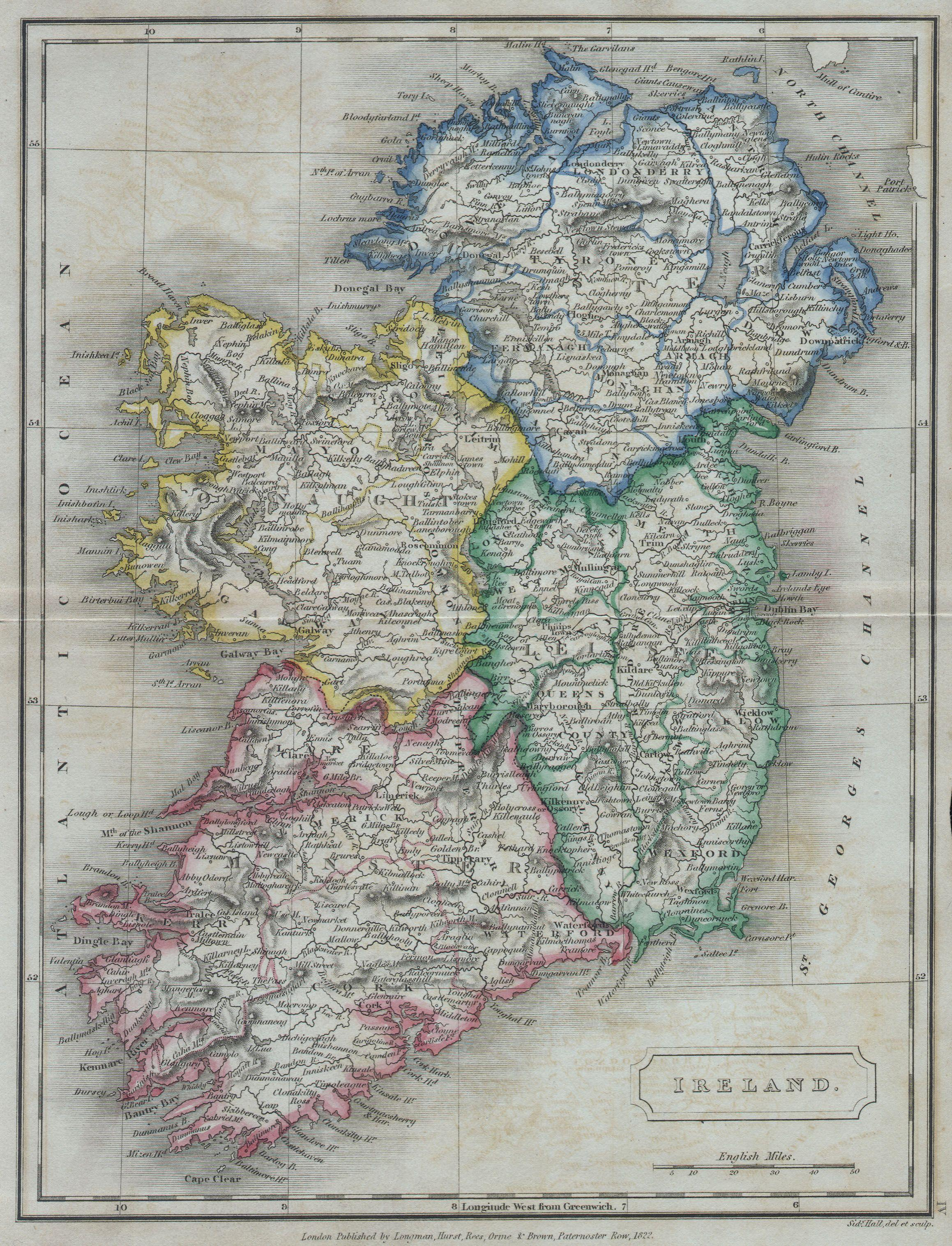 A beautiful hand colored map of Ireland from Butler’s 1822 School Geography. Dated.